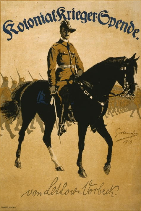 World War I poster of German general Paul von Lettow-Vorbeck (1870-1964). "Kolonial-Krieger-Spende. Von Lettow-Vorbeck. Grotemeyer 1918." Library of Congress description: "Poster shows General Paul Emil von Lettow-Vorbeck on horseback leading African soldiers. Text at top reads Colonial War Funds; on bottom is facsimile of von Lettow-Vorbeck's signature."